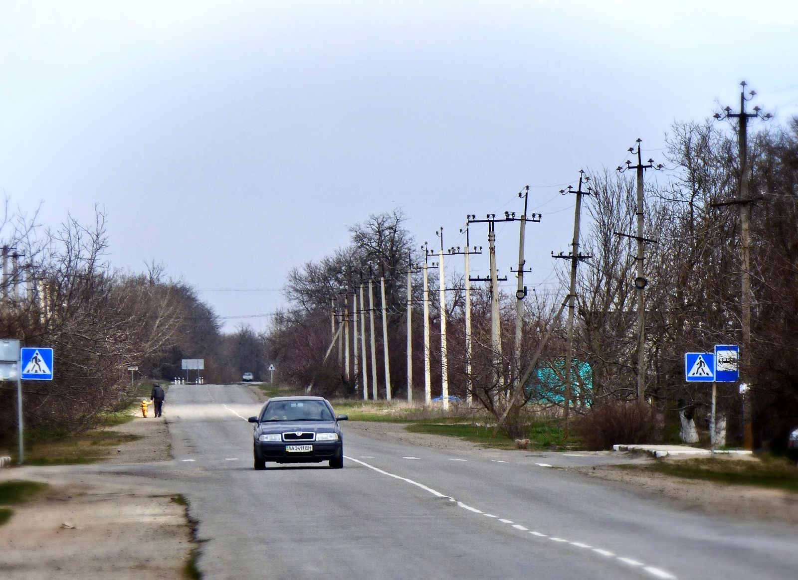 Rivne village (Zaporizka oblast, Ukraine).